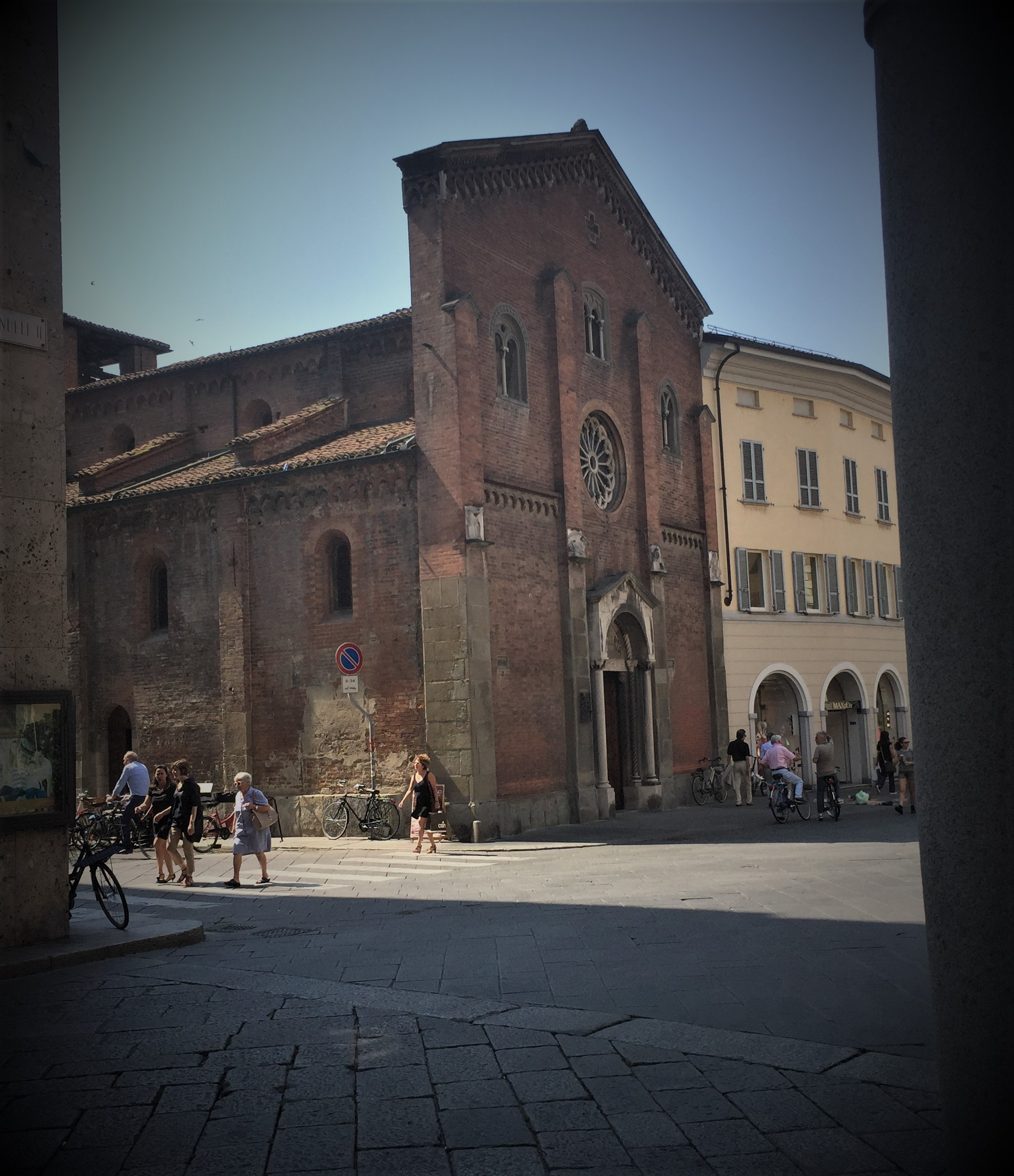 Church of San Donnino - Piacenza - Emilia Romagna - Italy A beautiful example of Romanesque architecture in Northern Italy